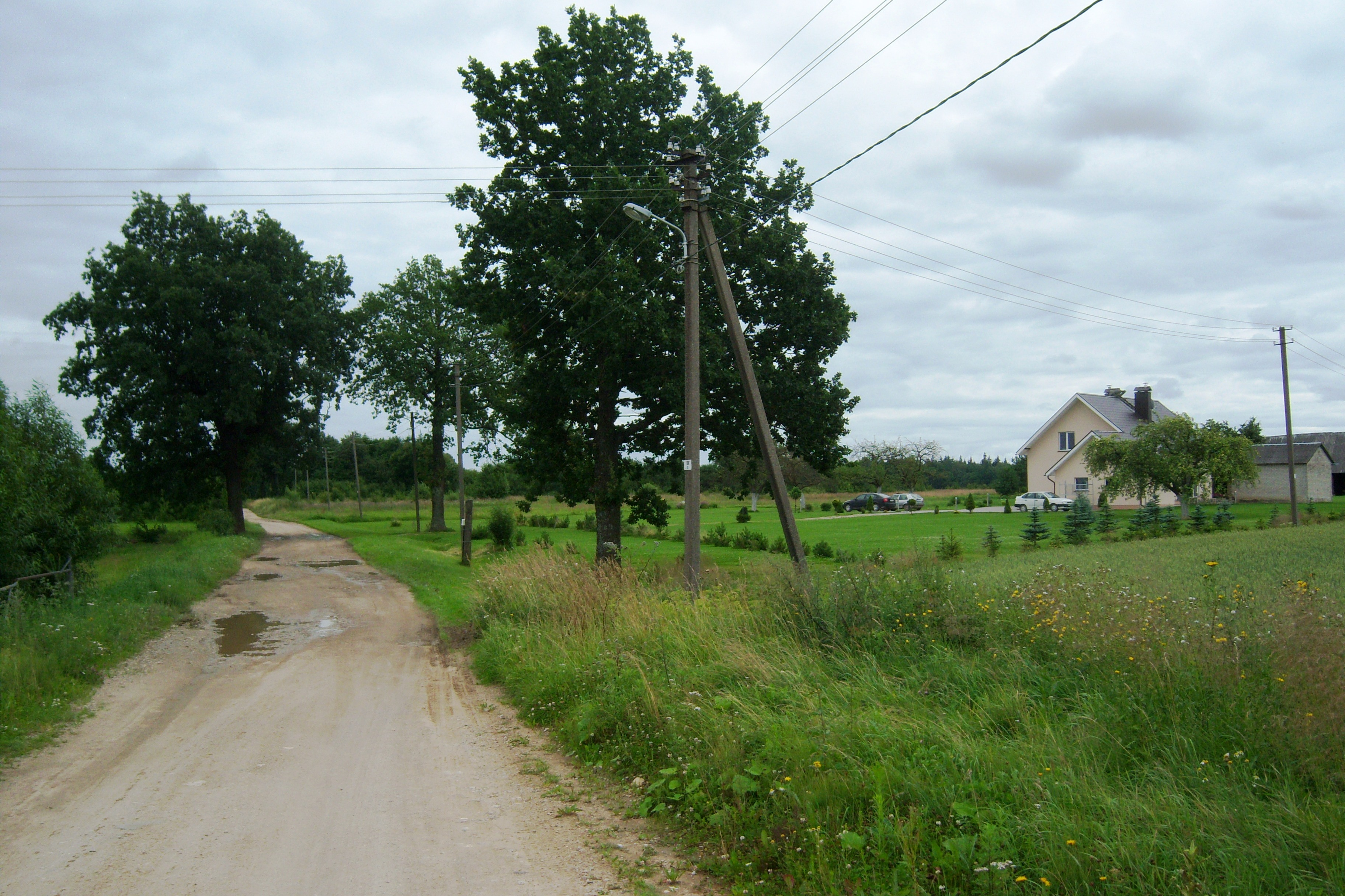 Pypliai, Kaunas district, Lithuania